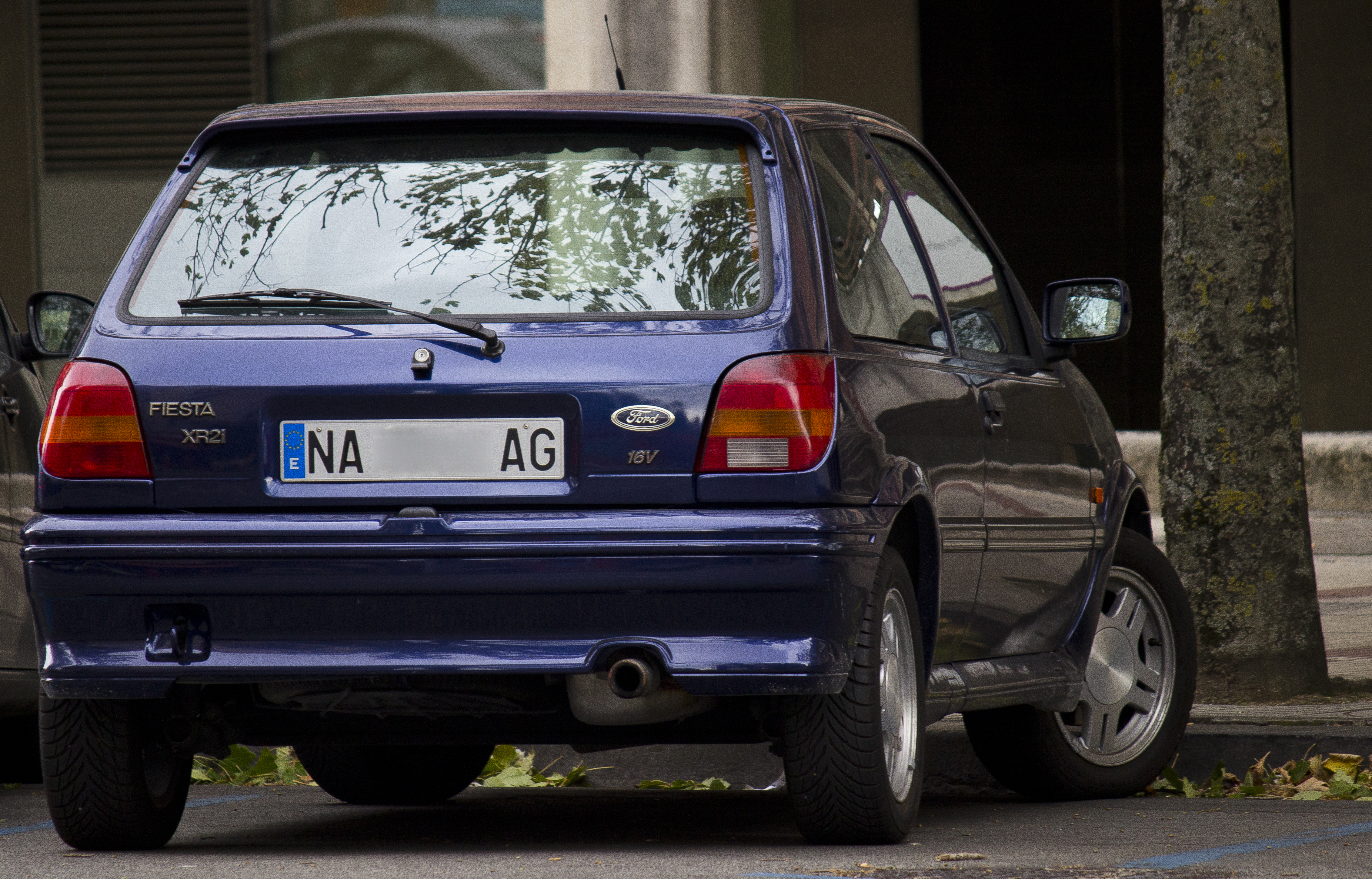 Mint condition, what a nice thing.